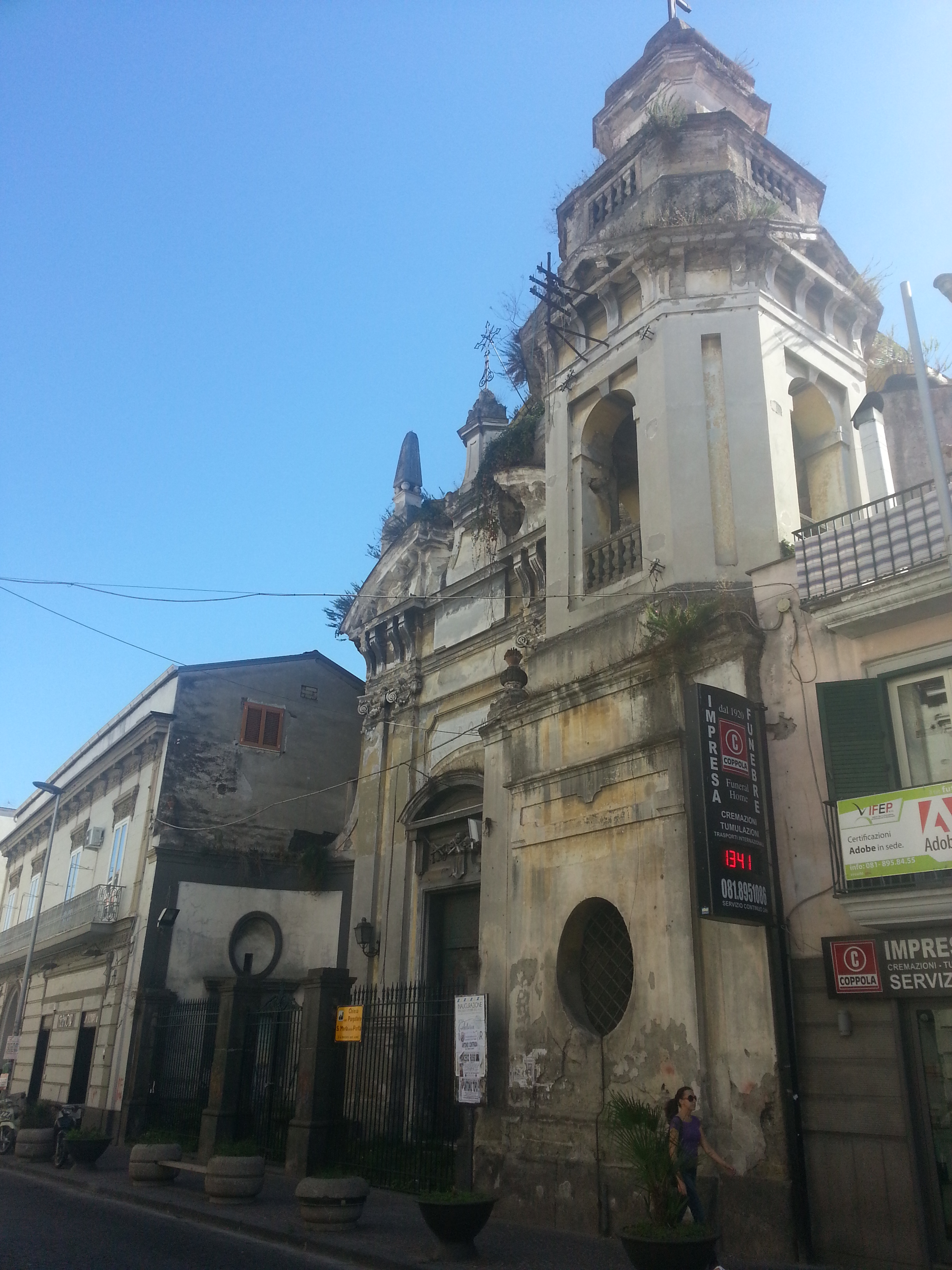 facade